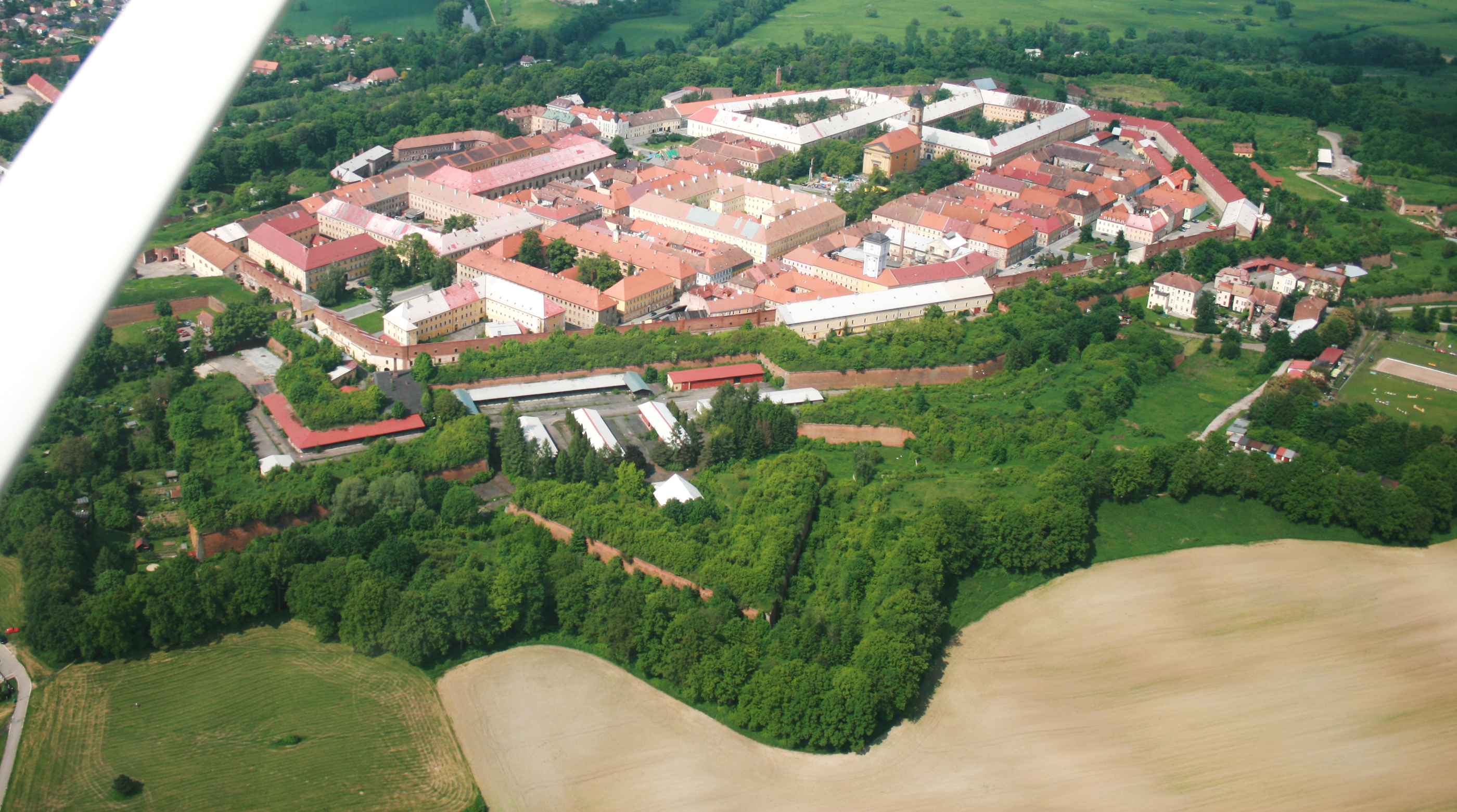 Fortress Josefov near of Jaroměř from air, eastern Bohemia, Czech Republic